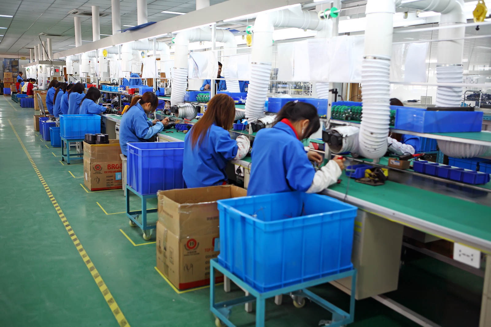 Shanghai Jinbei Photographic Equipment Co. production line